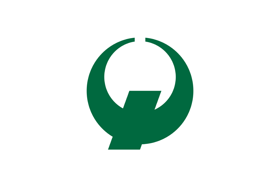 Flag of Nago, Okinawa